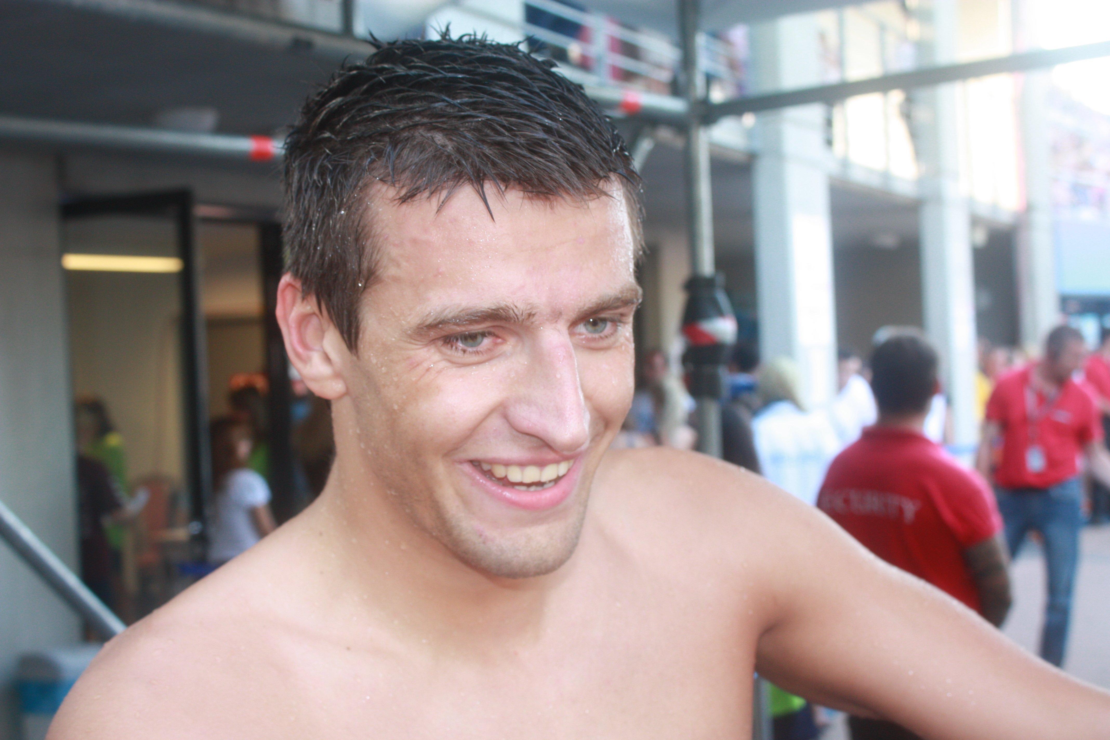 Stanislav Donets at the European Swimming Championships in Budapest-2010